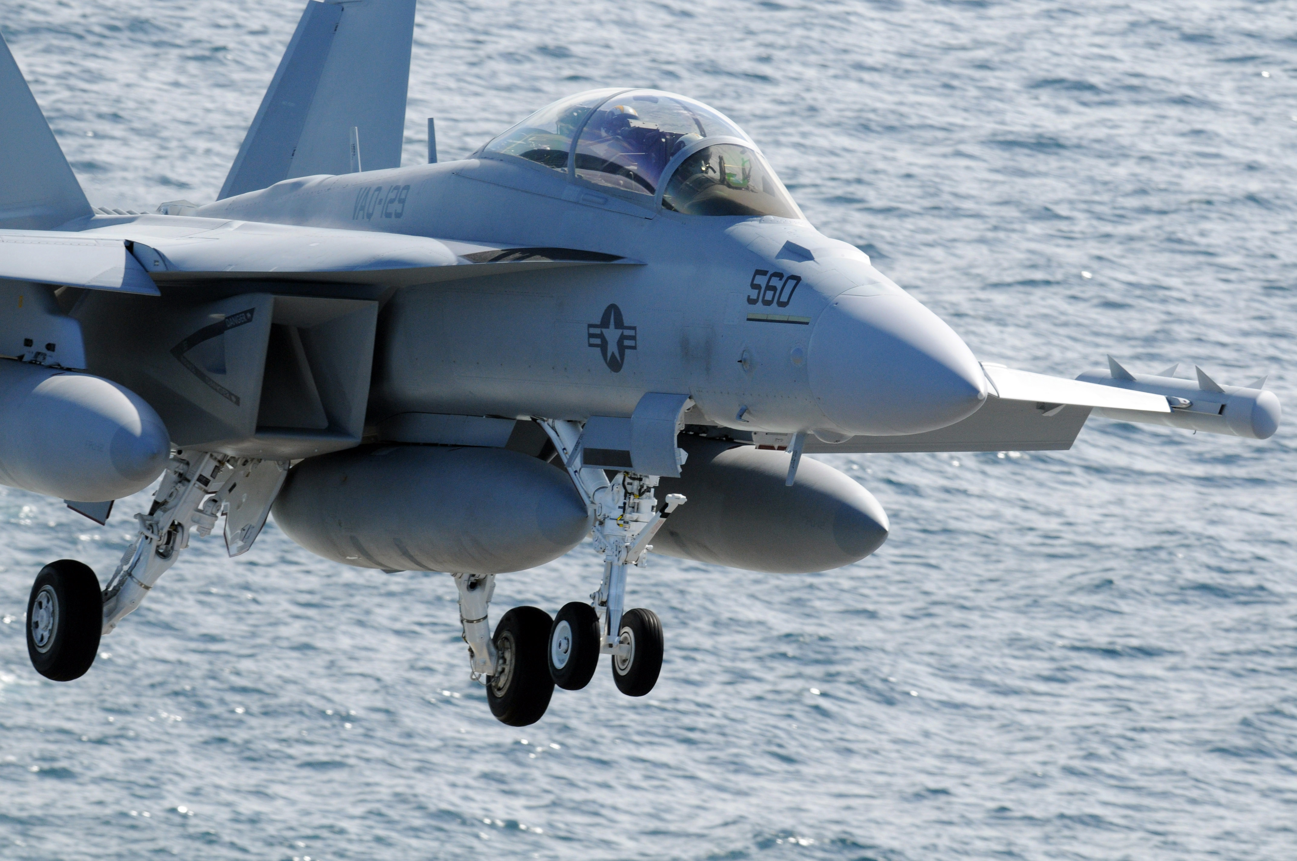 PACIFIC OCEAN (Feb. 17, 2009) An EA-18G Growler assigned to the "Vikings" of Tactical Electronic Warfare Squadron (VAQ) 129 aligns itself for an at sea landing aboard the Nimitz-class aircraft carrier USS Ronald Reagan (CVN 76). The Growler is the replacement for the EA-6B Prowler, which will be replaced in the 2010 timeframe. Ronald Reagan is underway performing Fleet Replacement Squadron Carrier Qualifications in the Pacific. (U.S. Navy photo by Mass Communication Specialist 3rd Class Torrey W. Lee/Released)